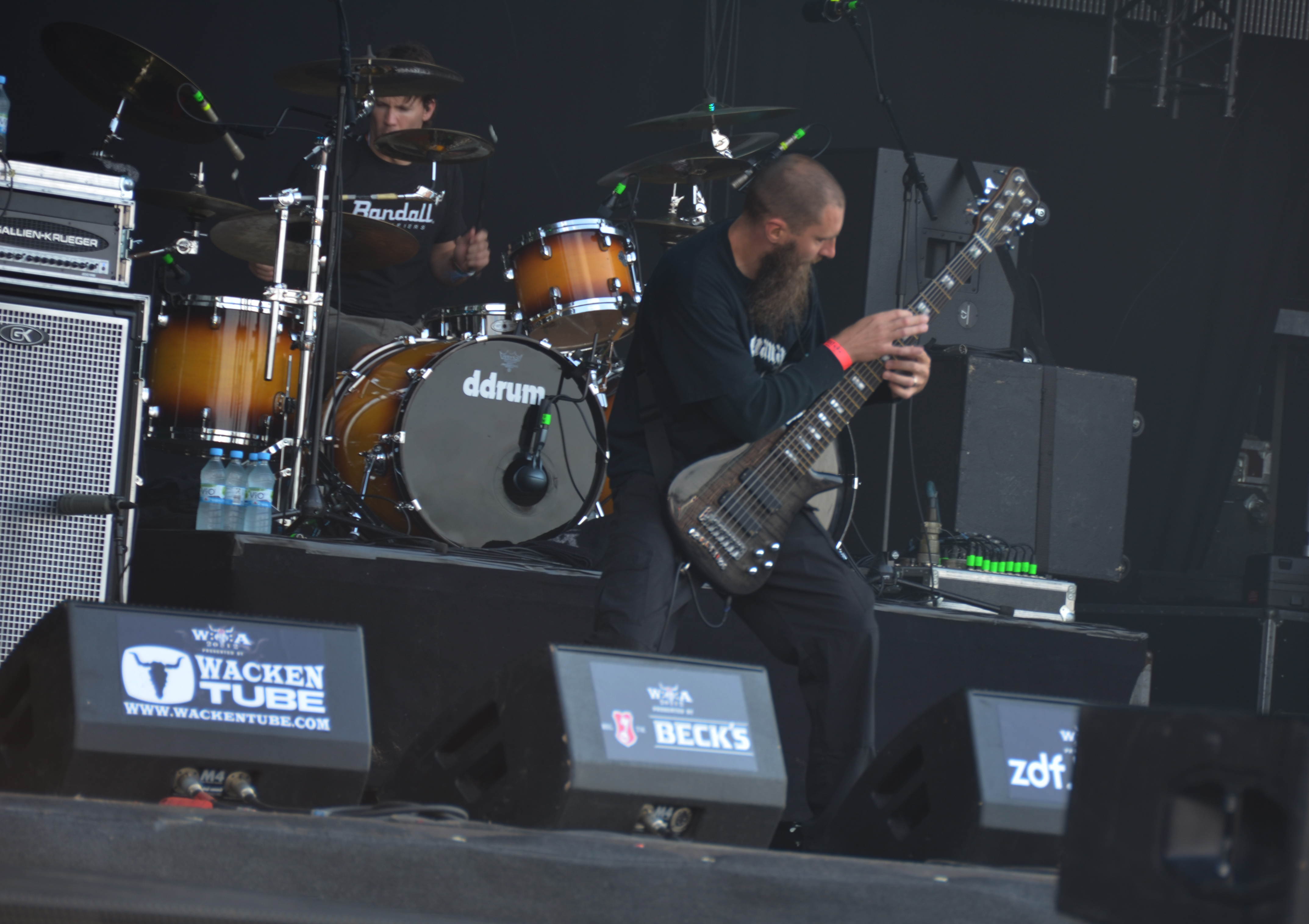 Six Feet Under at Wacken Open Air 2012; Jeff Hughell (Bass) and Kevin Talley (Drums)